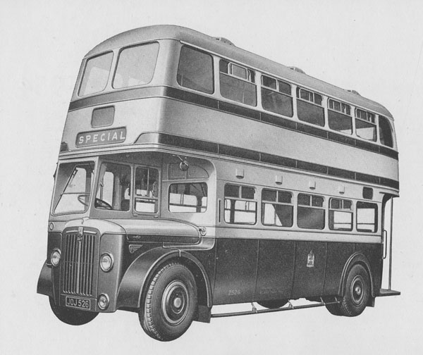 A 1948 'Arab' Mark IV double-decker bus. This was owned by Birmingham Corporation and was one of 1000 Guy buses.